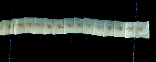 proglottids of Diphyllobothrium latum. From the US government (CDC), so not copyrighted.